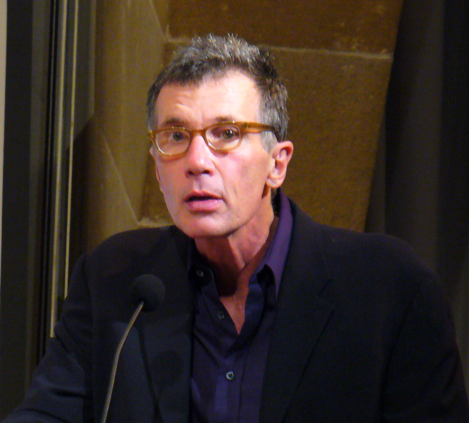 Michael Cunningham by David Shankbone